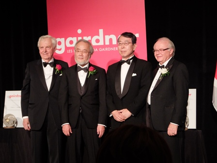 Yoshinori Ōsumi, Honorary Professor of Tokyo Institute of Technology, met D. Lorne Tyrrell, Chair of Gairdner Foundation, John Dirks, President of Gairdner Foundation, and Kenjirō Monji, Ambassador to Canada, at Gairdner Foundation International Award Ceremony at the Royal Ontario Museum in Toronto City, Ontario Province on October 29, 2015.